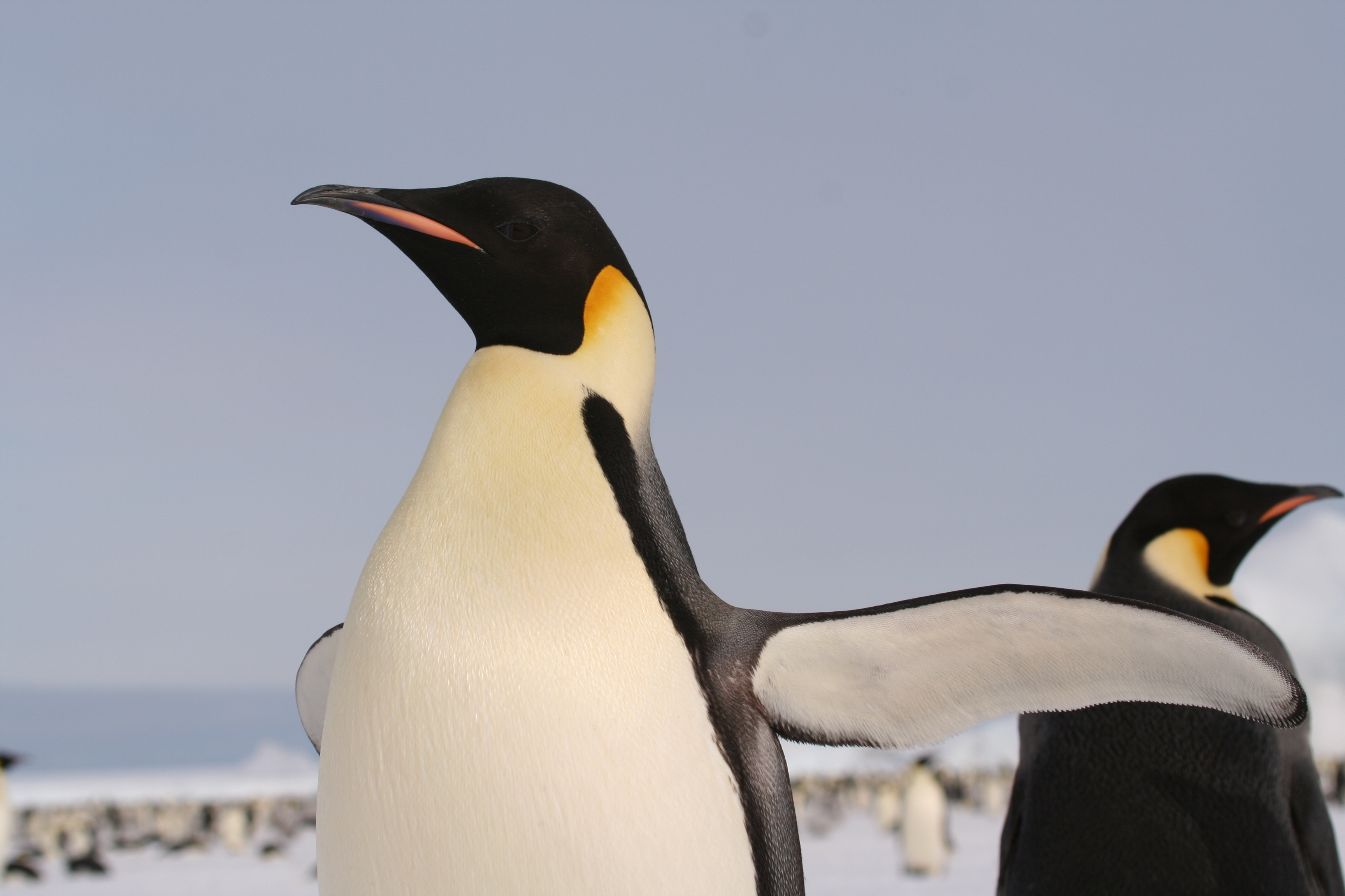 Emperor Penguin (Aptenodytes forsteri), Ross Ice Shelf, Cape Washington, Antarctica